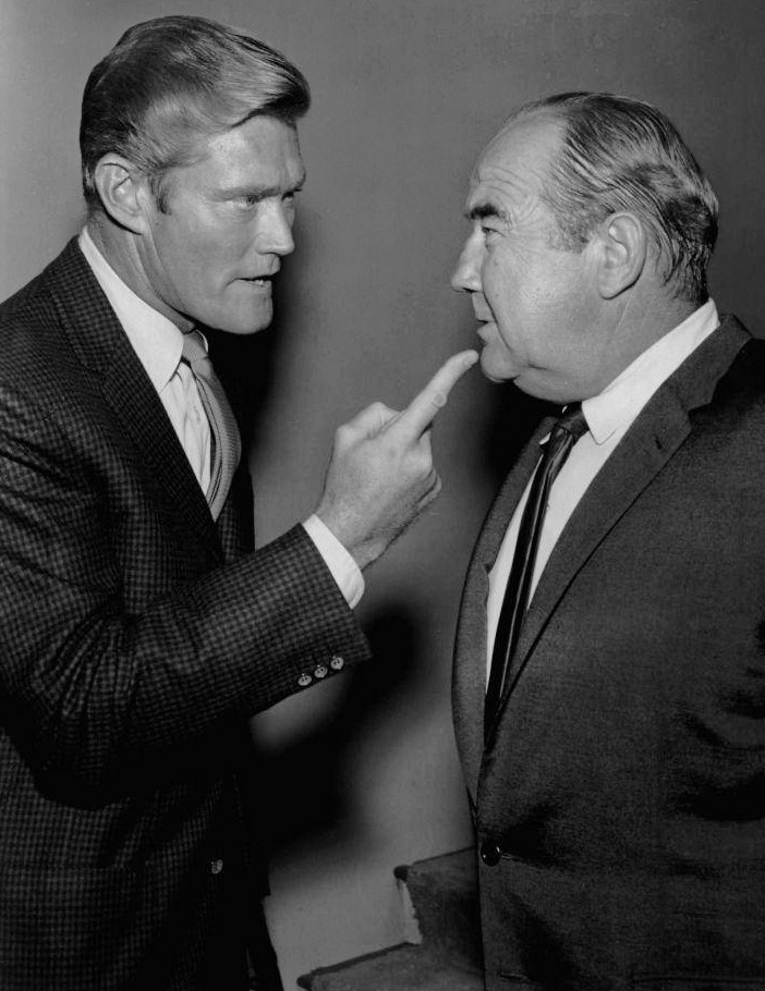 Photo of Chuck Connors as John Egan and guest star Broderick Crawford (star of Highway Patrol) from the television program Arrest and Trial.